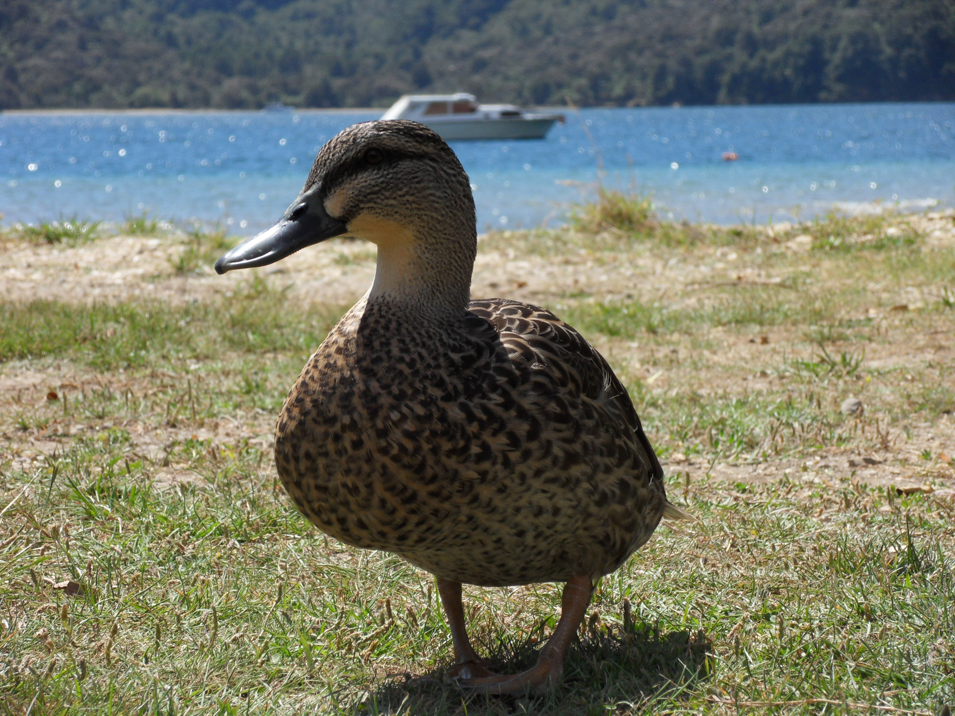 Picture of a hybrid Mallard × Pacific Black Duck, Picton, New Zealand.